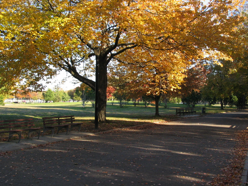 The foliage of the Flushing Meadows Corona Park